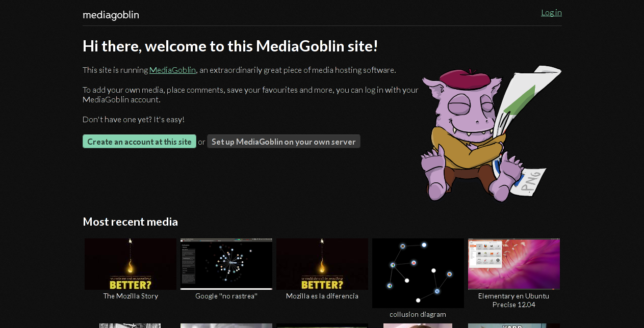 Homepage of a website running GNU MediaGoblin.